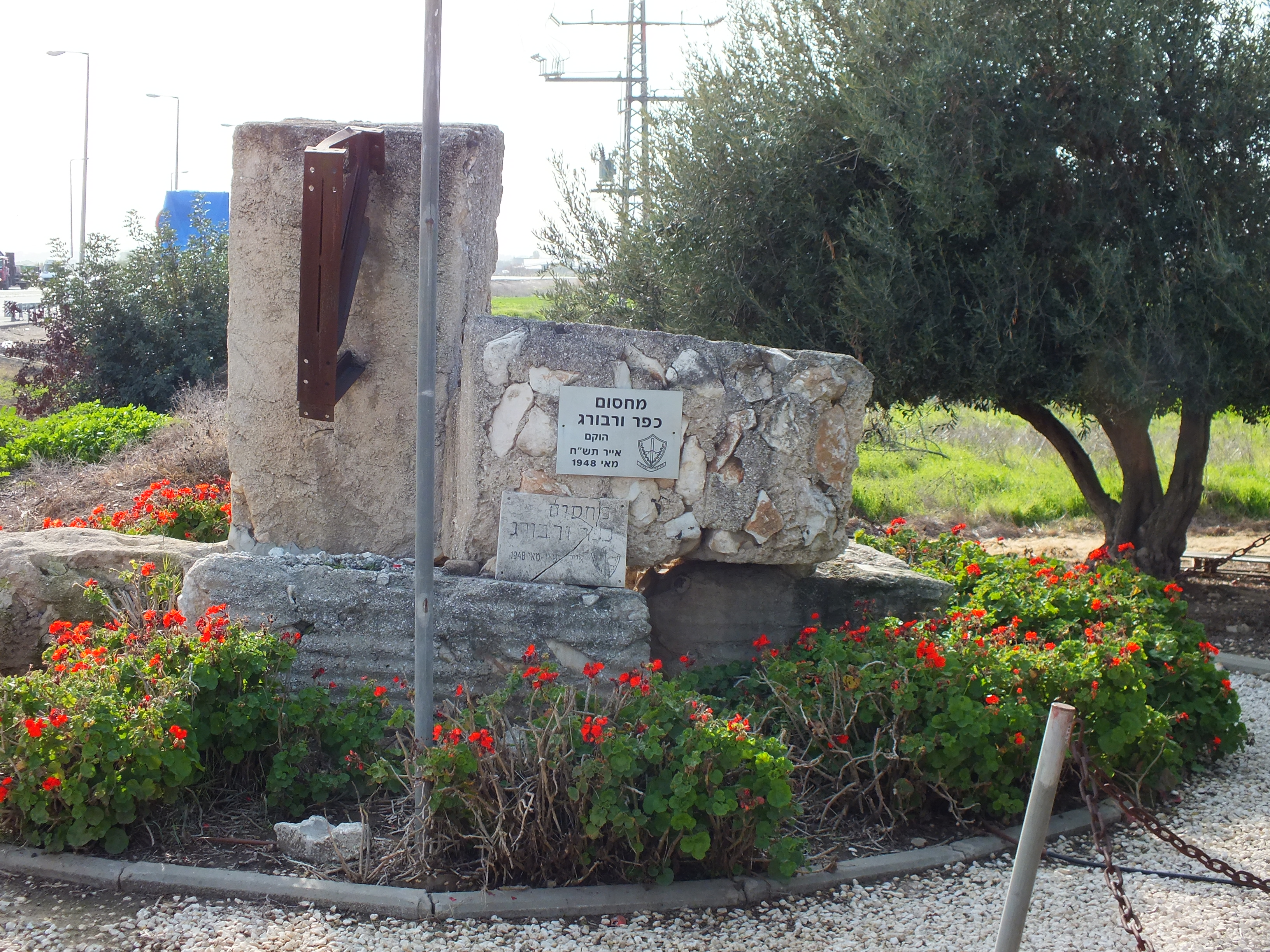 Kfar Warburg is a senior moshav located just outside Kiryat Mal'achi. The entrance from Road 3 is still preserving the historic barricade from the Israeli Independence War war for commemoration.